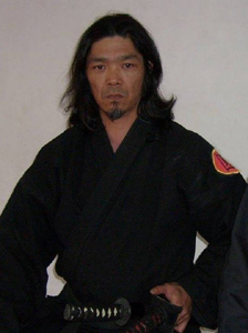 Isao Nishi